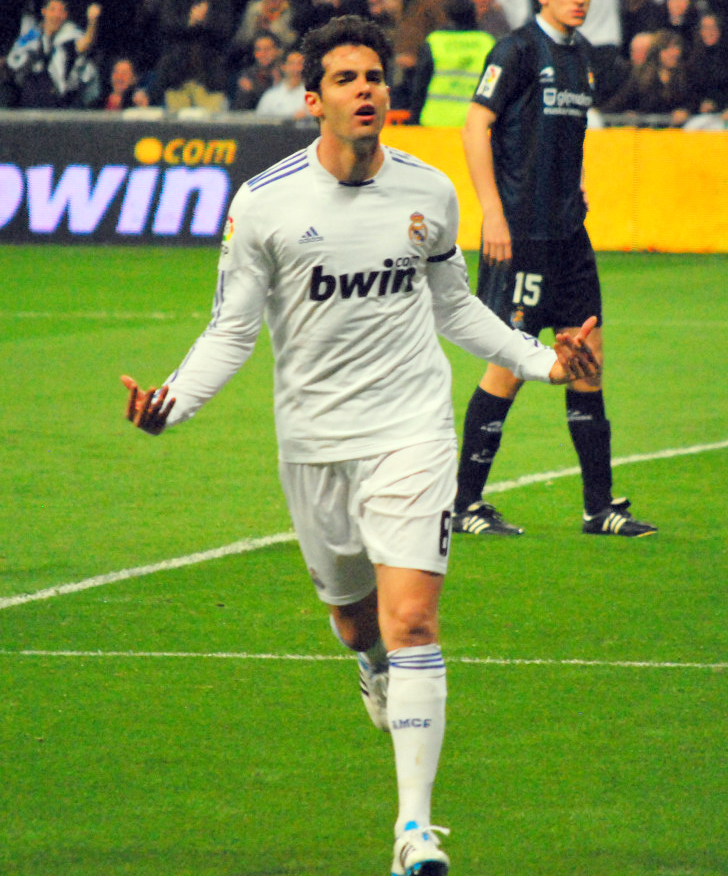 Kaká celebrates after scoring a goal against Ajax